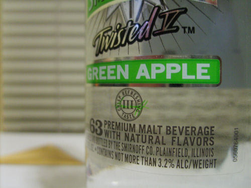 Numbering and brewing information on a glass bottle of Smirnoff Vodka.